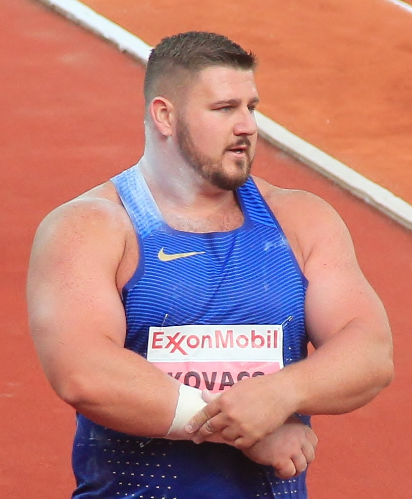 Joe Kovacs at the 2016 Bislett Games